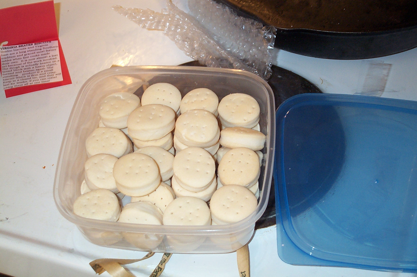 An open plastic food container filled with beaten biscuits. Photographer's note: "Apparently, these are a noble tradition on the verge of extinction."